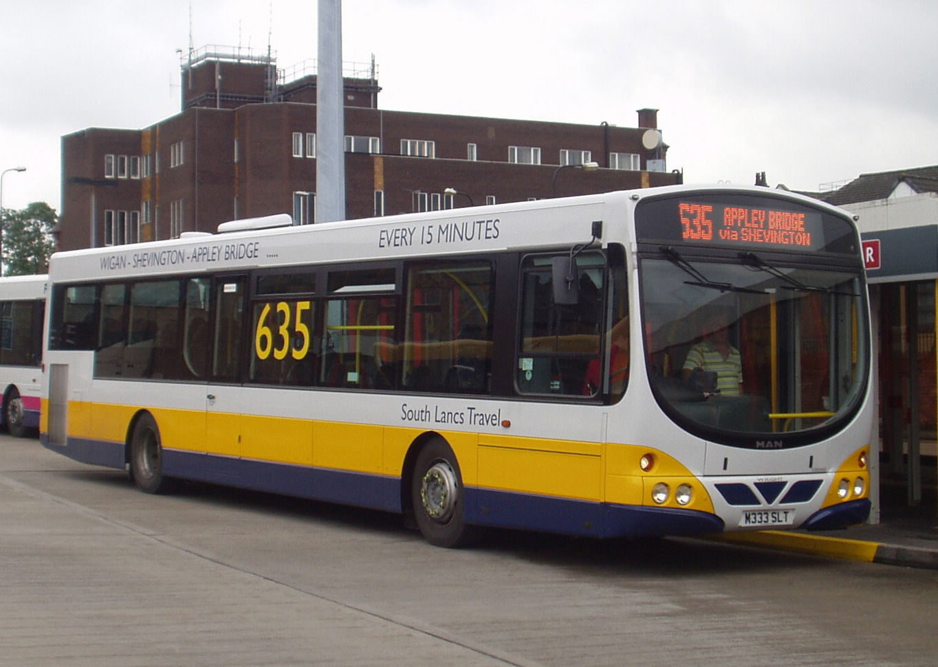 MAN A22 / Wright Meridian bus (N333 SLT) in South Lancs Travel fleet, pictured in Wigan bus station.